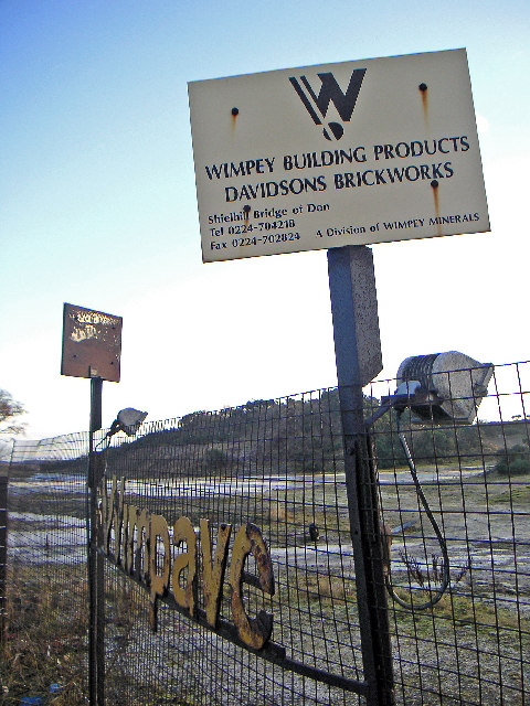 Abandoned Brickworks.